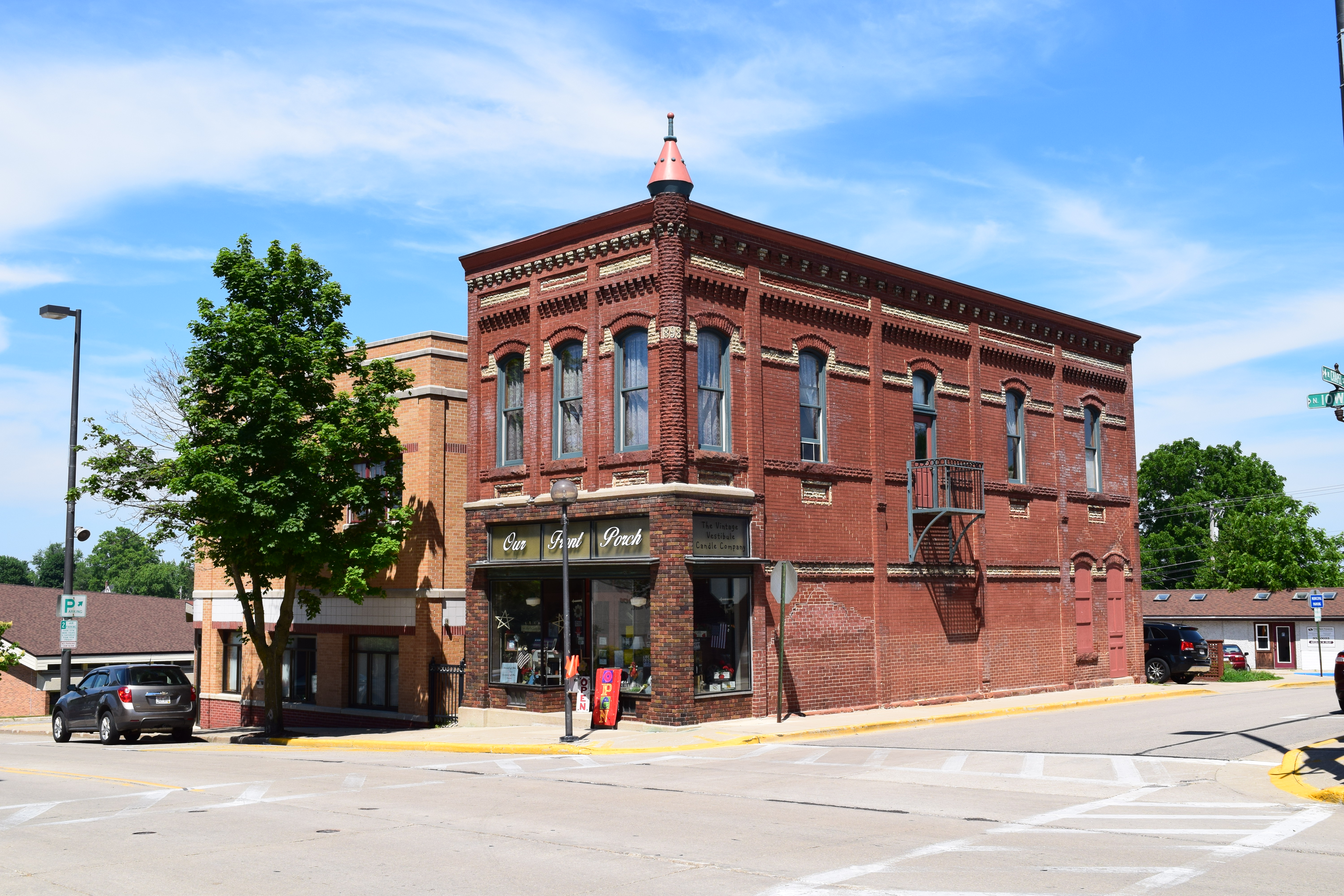 Building at the northeast corner of Iowa Street and Chapel Street in the Iowa Street Historic District in Dodgeville, Wisconsin.